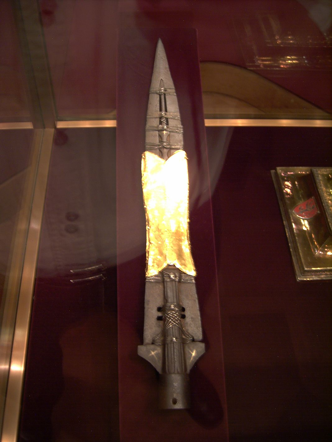 Description: The Holy Lance (Die Heiligen Lanze) in the Schatzkammer Wien Misc: Please excuse the minor un-sharpness, as you are not allowed to use a flash or a tripod in the Schatzkammer. You may use the picture in any non-commercial way. ← was added months after transfer.